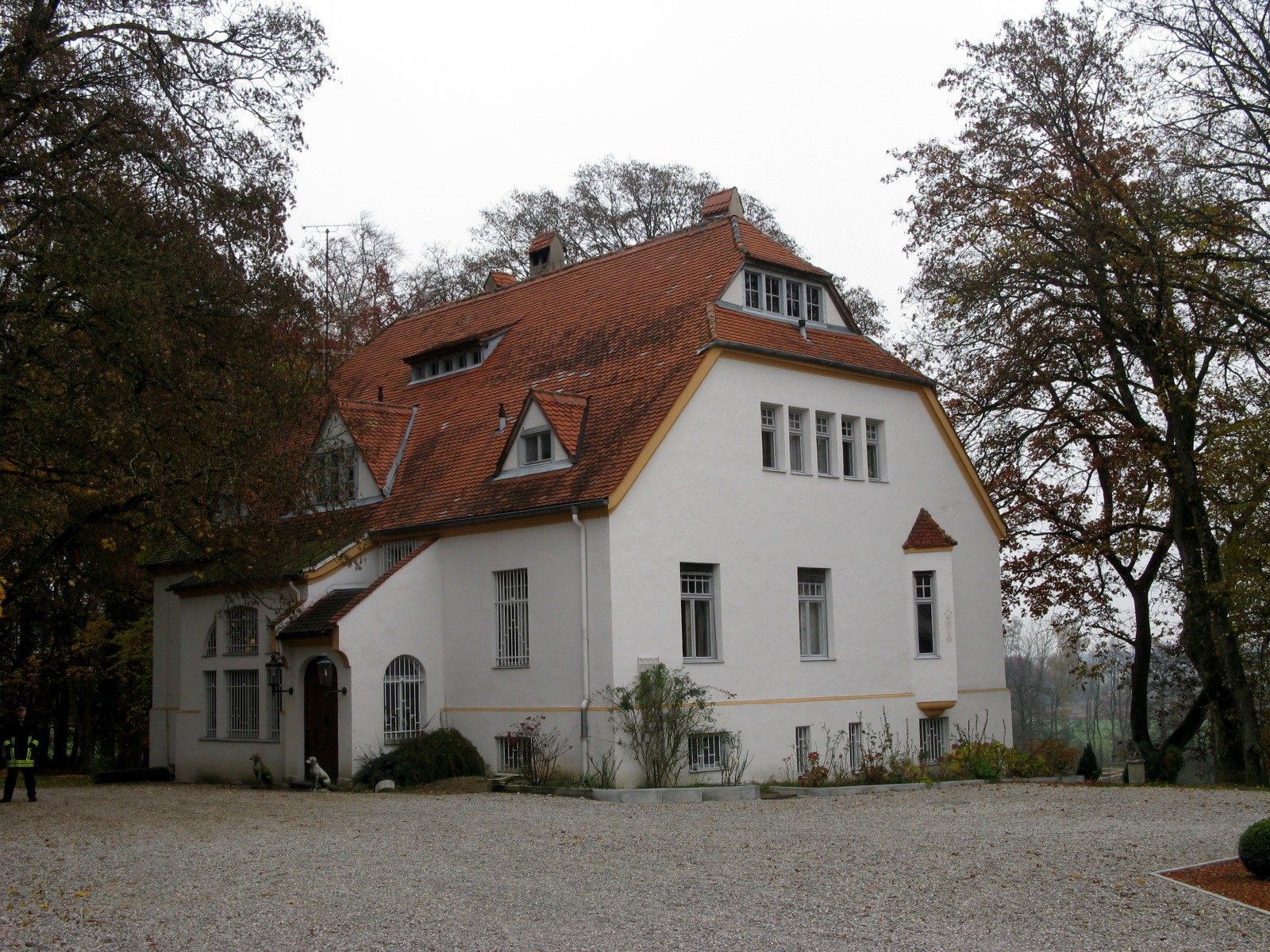 Manor House in Bannacker, Augsburg, Bavaria